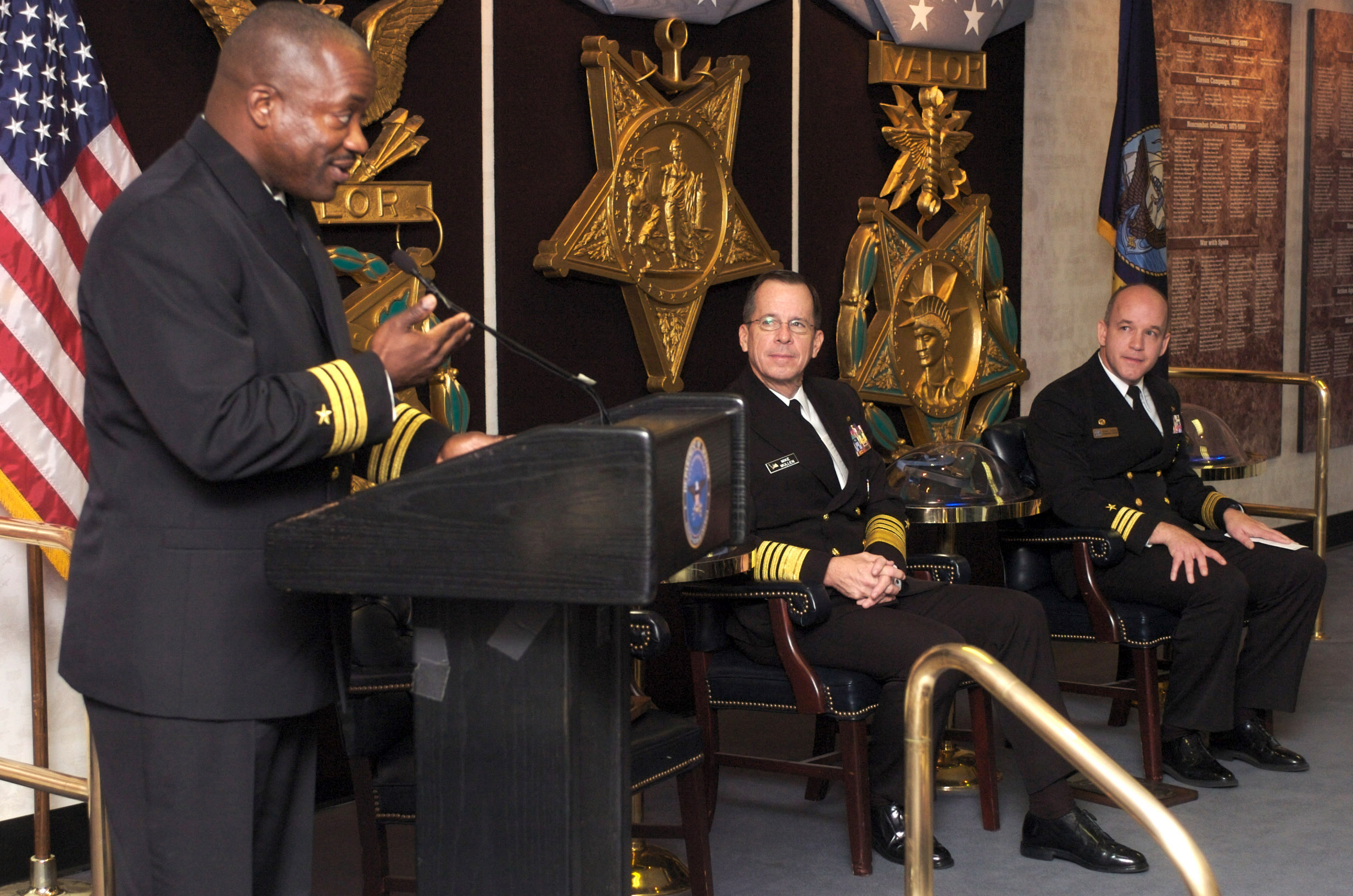 Washington (Nov. 14, 2006) - Award host Chief of Naval Operations (CNO) Adm. Mike Mullen and fellow award winner Cmdr. Brian T. Howe, USS La Jolla (SSN 701) commanding officer, listen as Vice Admiral James B. Stockdale Award for Leadership winner Cmdr. Richard L. Clemmons, former USS Roosevelt (DDG 80) commanding officer, speaks during the presentation of his award in the Hall of Heroes at the Pentagon. The 26th presentation of the award, established in honor of Vice Admiral James B. Stockdale whose distinguished Naval career symbolizes the highest standards of excellence in both personal example and leadership. The award is presented annually to two commissioned officers on active duty below the grade of Captain who are in command of a single ship, submarine, aviation squadron or operational warfare unit. U.S. Navy photo by Mass Communication Specialist 1st Class Chad J. McNeeley (RELEASED)